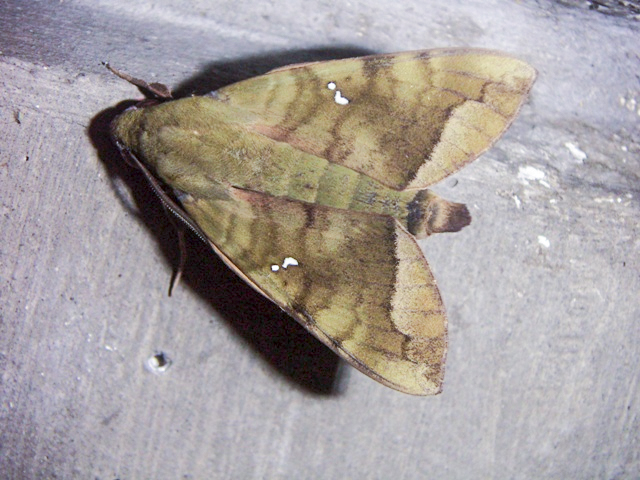 Nephele hespera (Fabricius, 1775). Wingspan: 70--86mm. The silver markings on the wings can be present or absent in both sexes.